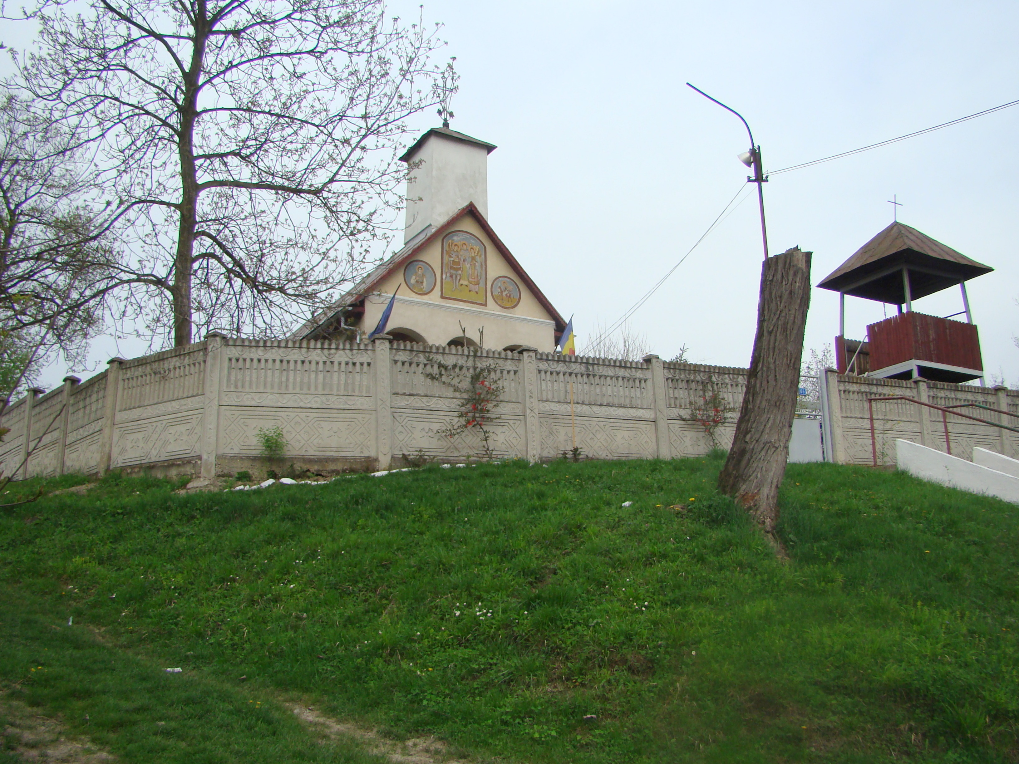 Wooden church in Motru (Leurda District), Gorj county, Romania